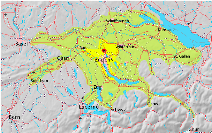 Metropolitan area around Zurich as defined by the Bundesamt für Statistik (BFS)